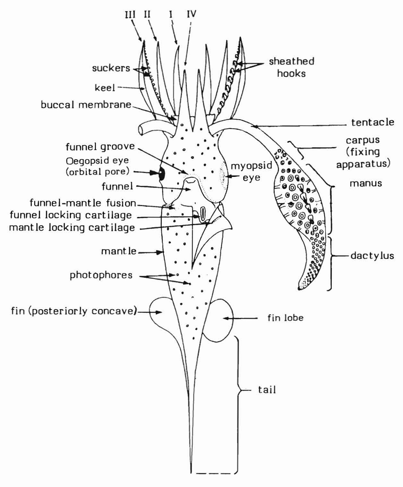 Composite diagra ventral aspect